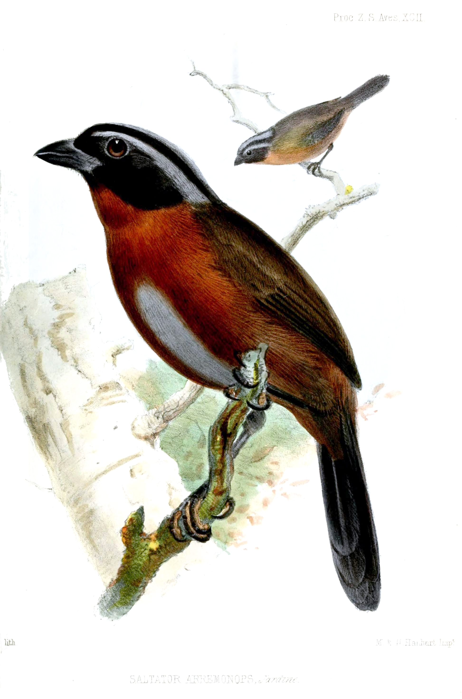 Saltator arremonops = Oreothraupis arremonops